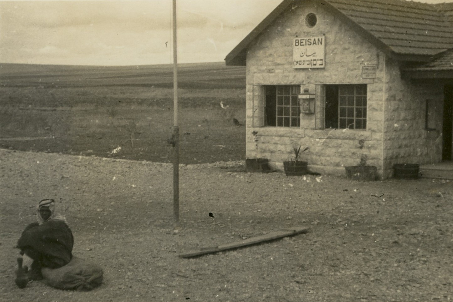 Valley Railroad station in Beit Shean during the British Mandate in Israel